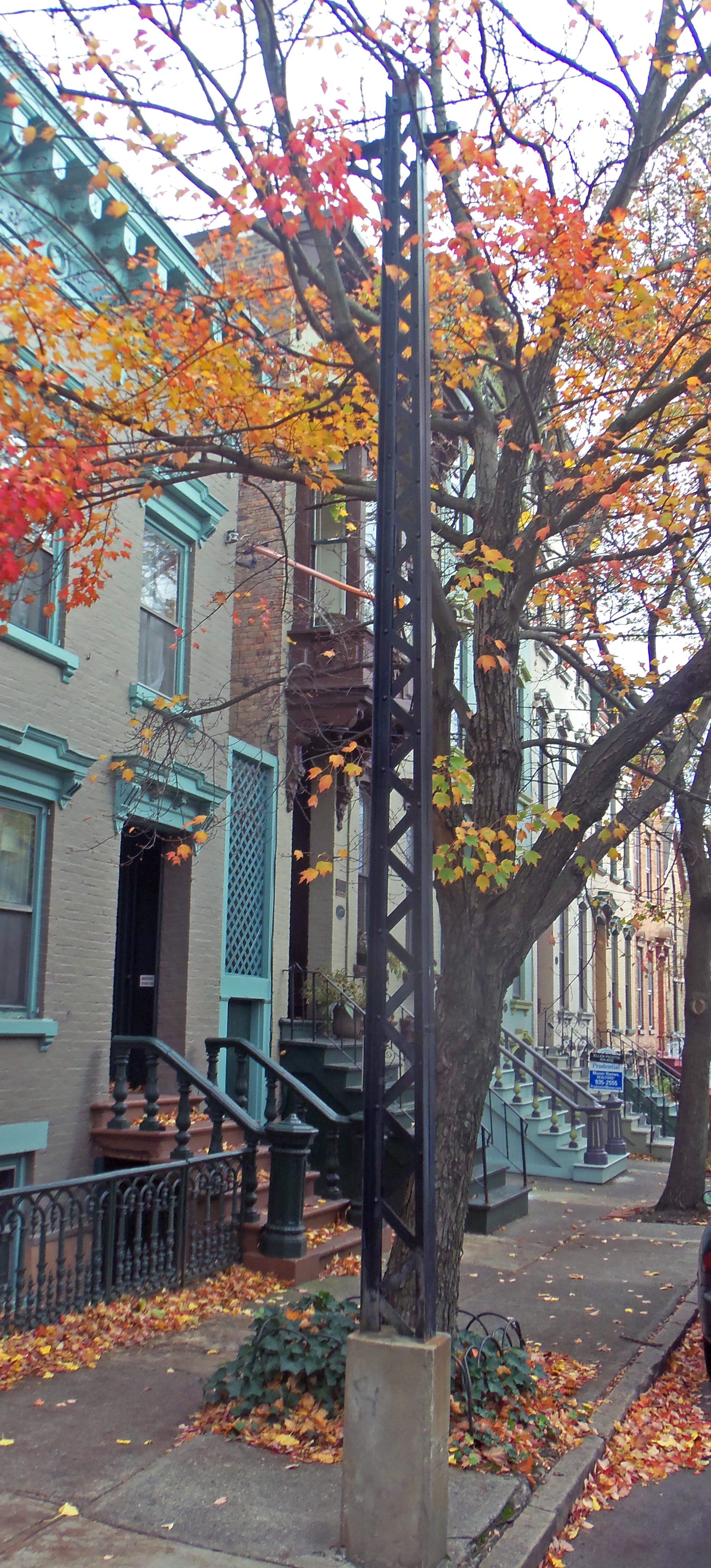 One of only two remaining trolley-wire towers in the city of Albany, NY, USA. Now a contributing object to the Center Square/Hudson–Park Historic District.